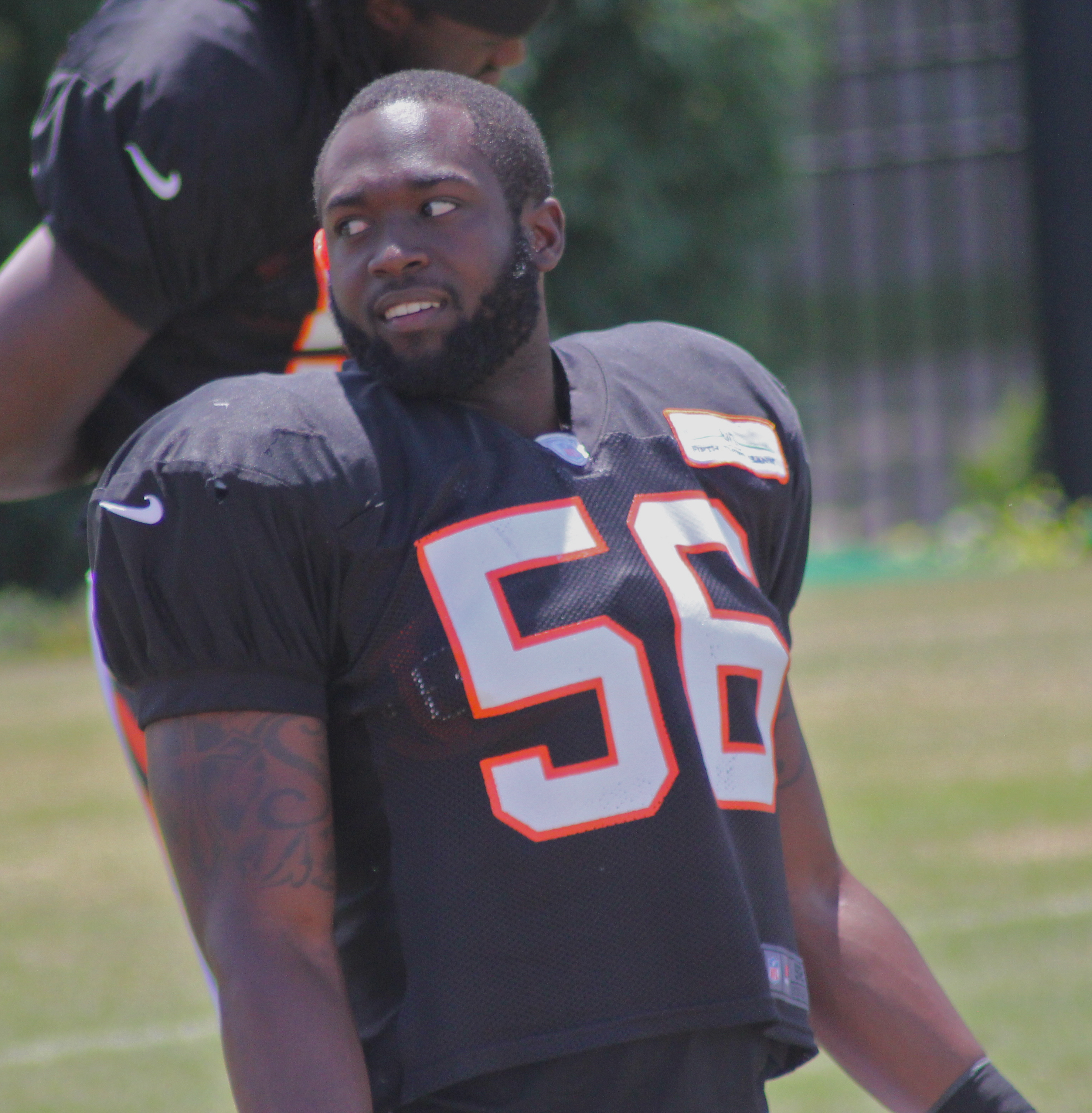 Sean Porter during 2013 summer training camp.